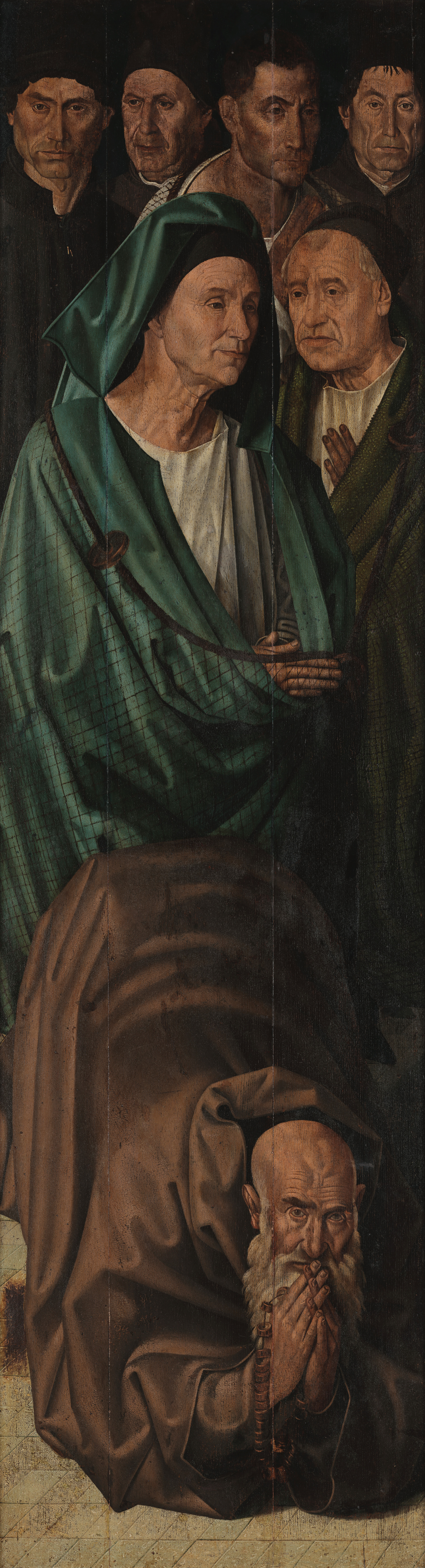 The "Panel of the Fishermen" of the Saint Vincent Panels (Portugal, 15th century)